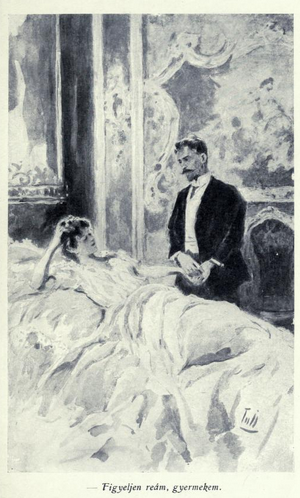 Illustration to Justh Zsigmond's novel